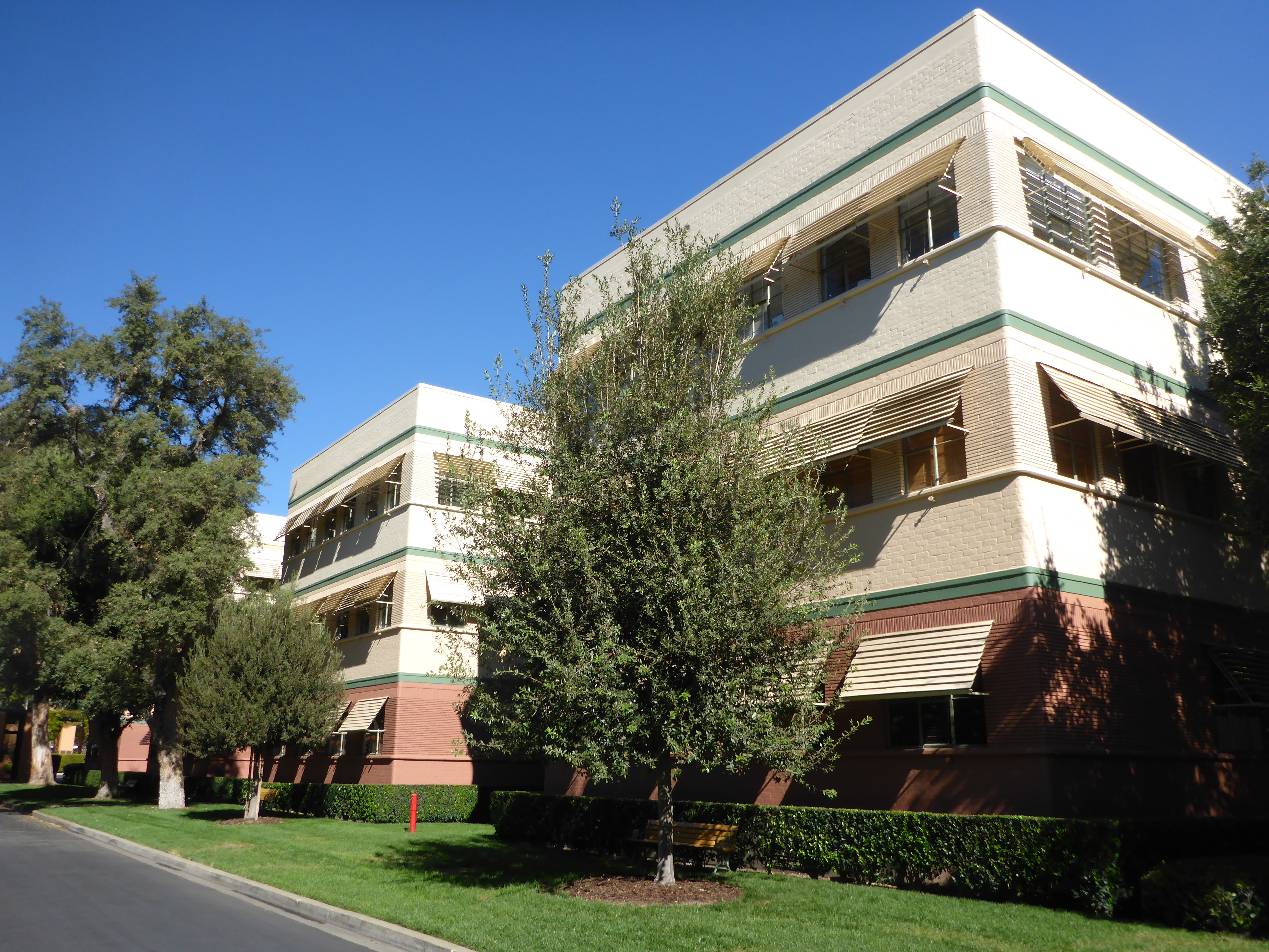 The old Animation Building at the Walt Disney Studios in Burbank, California. Photographed by user Coolcaesar on November 8, 2014.